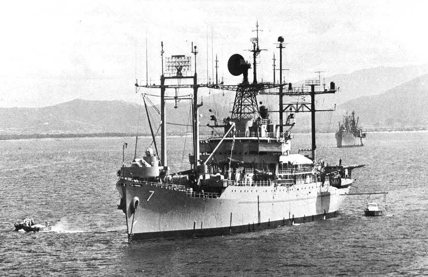 The U.S. Navy amphibious command ship USS Mount McKinley (LCC-7) off Vietnam in 1969. Note her AN/SPS-37 (foremast) and AN/SPS-30 air-search radars.